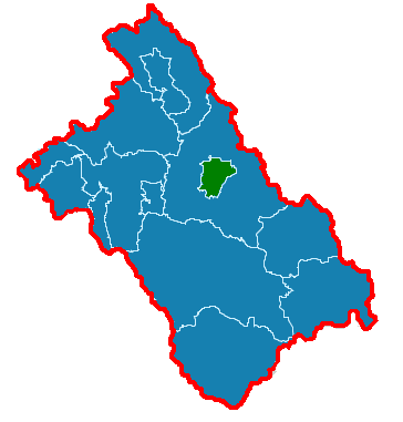 Glatz gegen den Landkreis Glatz